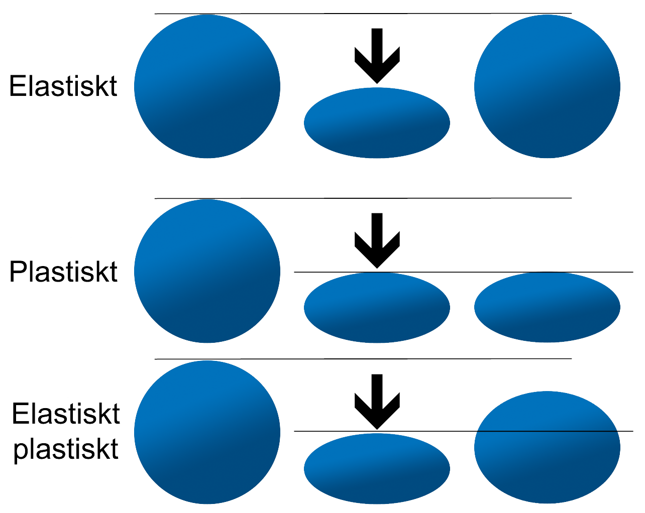 The picture describes the elasticity of three different bodies. The bodies are in descending order, elastic, plastic and elastic plastic.